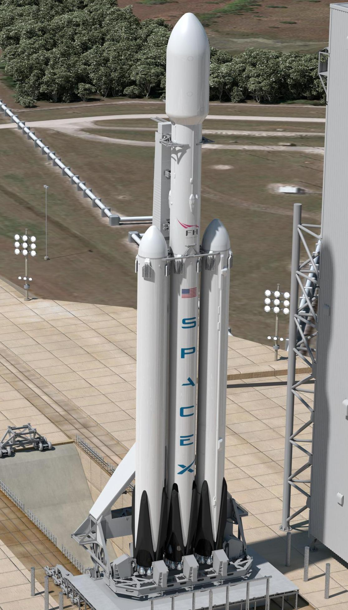 Pad 39A at Kennedy Space Center will be future home to NASA Commercial Crew Program launches and Falcon Heavy missions.